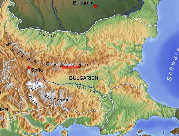 Location of teh Rose Valley in Bulgaria - the red line in central Bulgaria